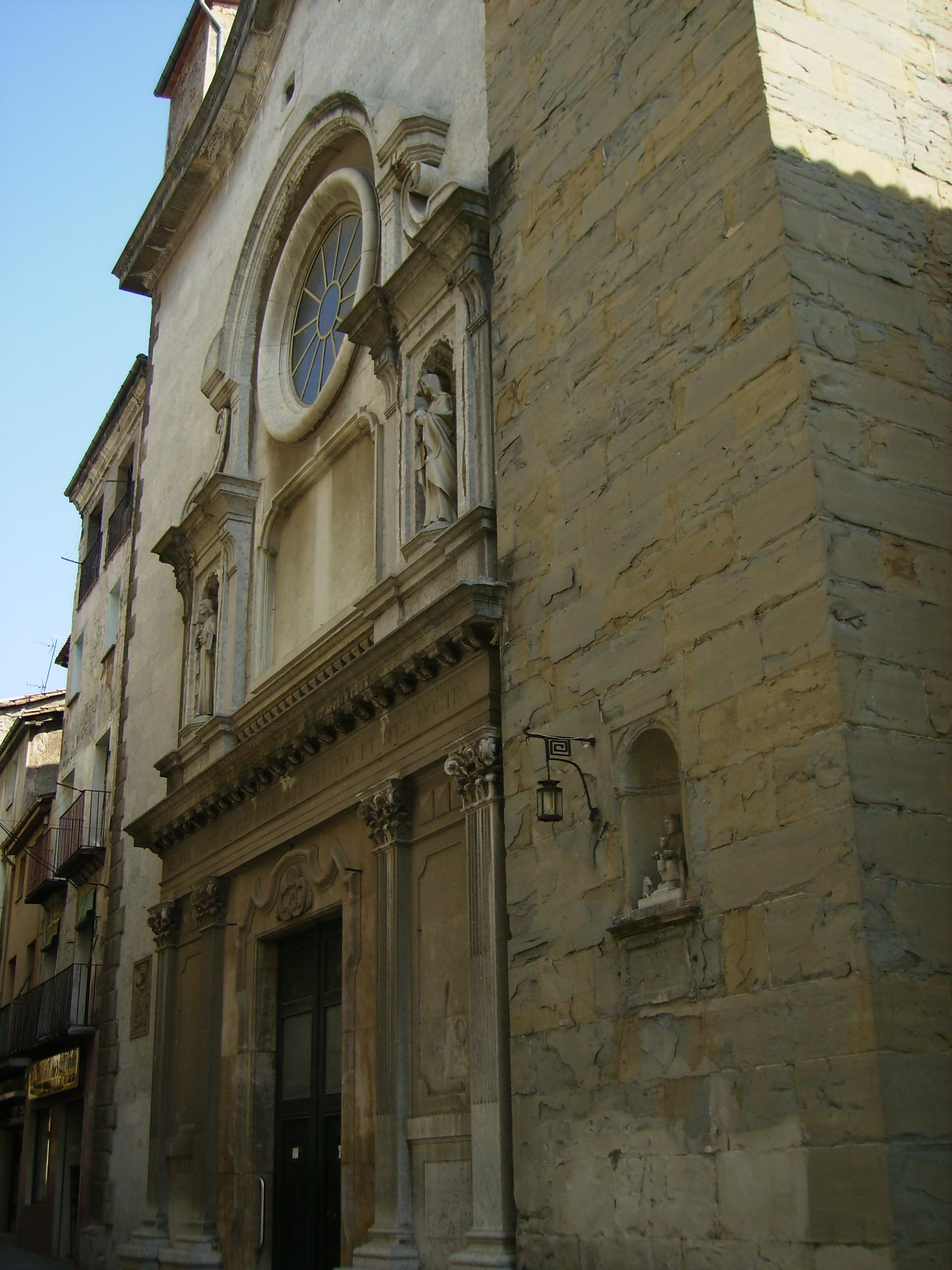 Santa Maria del Tura church in Olot (Catalonia)